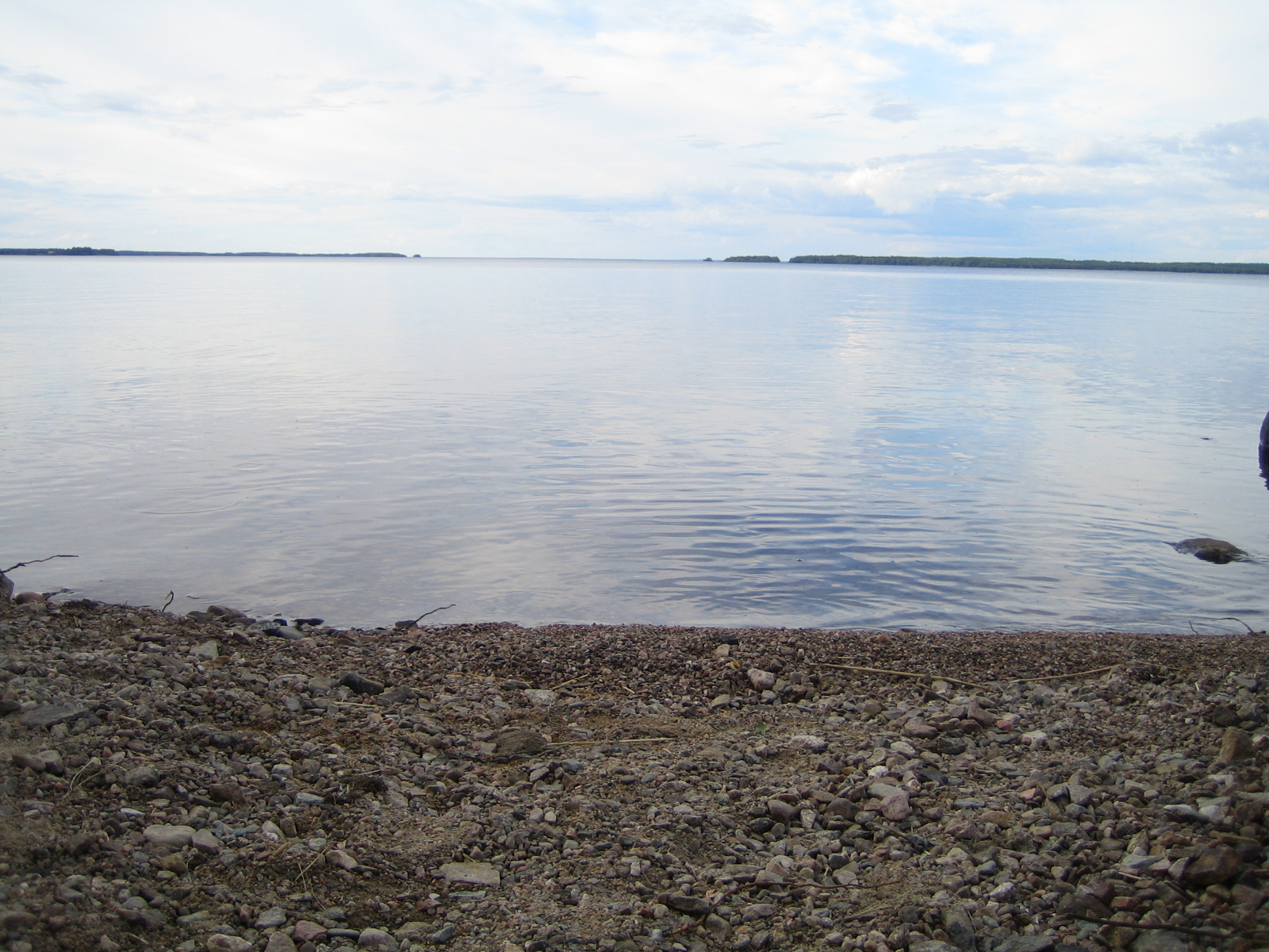 Oulujärvi, Finland. Picture from Vuottolahti.